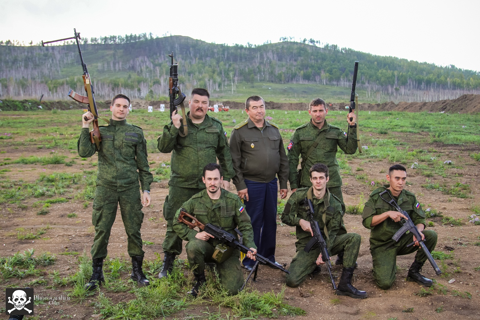 Казачья молодежь с куратором международной деятельности Забайкальского казачьего войска генералом С.Г. Бобровым.